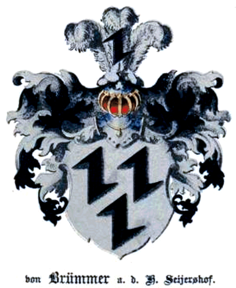 Coat of Arms of Brümmer family